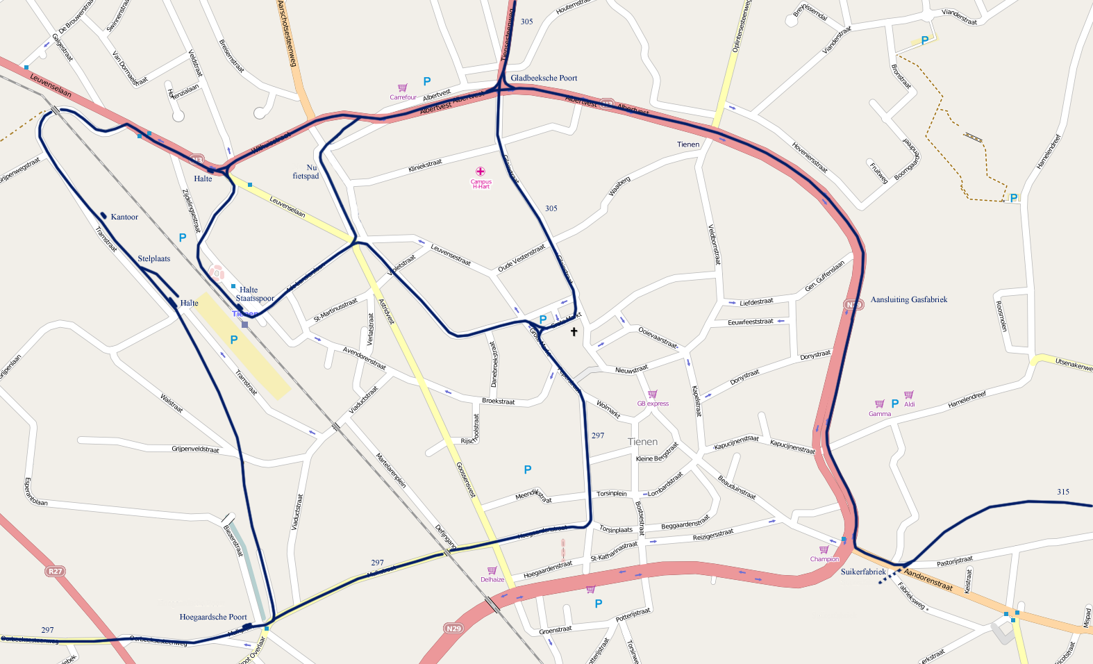 Vicinal railway lines in Tienen. The lines in the town where not used by trams by 1933. The heavy beetroot for the sugar refinery always used the ringline.